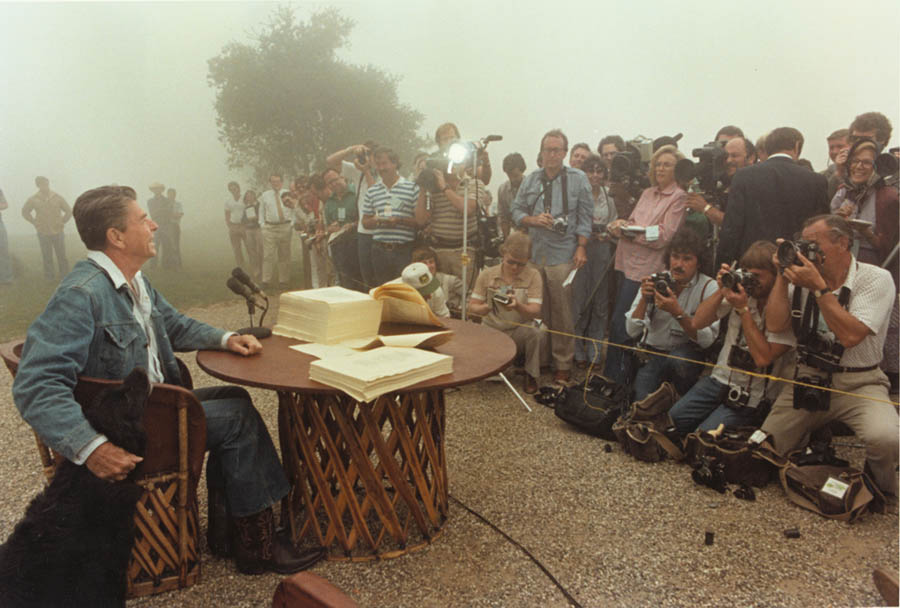 President Ronald Reagan signs the Economic Recovery Tax Act of 1981, Rancho del Cielo, 1981.